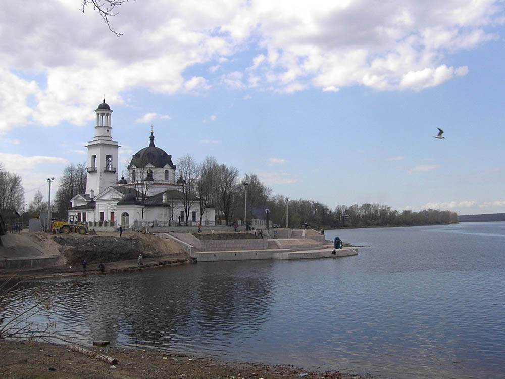 Ust-Izhora (Russia), St. Alexander Nevsky church at the confluence of Neva River and Izhora River.